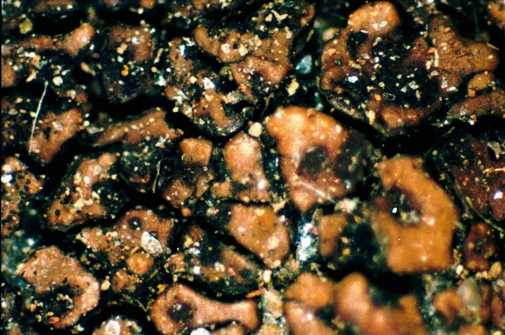 Acarospora fuscata (Schrader) Arnold, 1870 (photograph of a herbarium specimen taken through a dissecting microscope (x40) showing brown areoles with darker brown disks of immersed apothecia) Growing on a stone wall in Westminster, Carroll County, Maryland, USA; collected and identified by Elmer G. Worthley (No. L-425, 21 Sep 1981); specimen is now in the Lichen Herbarium of the New York Botanical Garden.